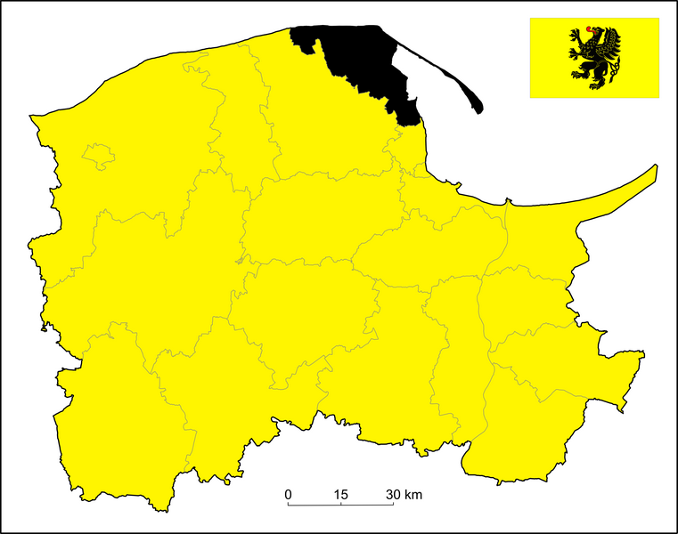 administrative division of Pomorskie (Pomeranian) Voivodeship - poviatships - Puck County (pl: powiat pucki, Puck Poviatship). Author: Krzysztof Created with Inkscape